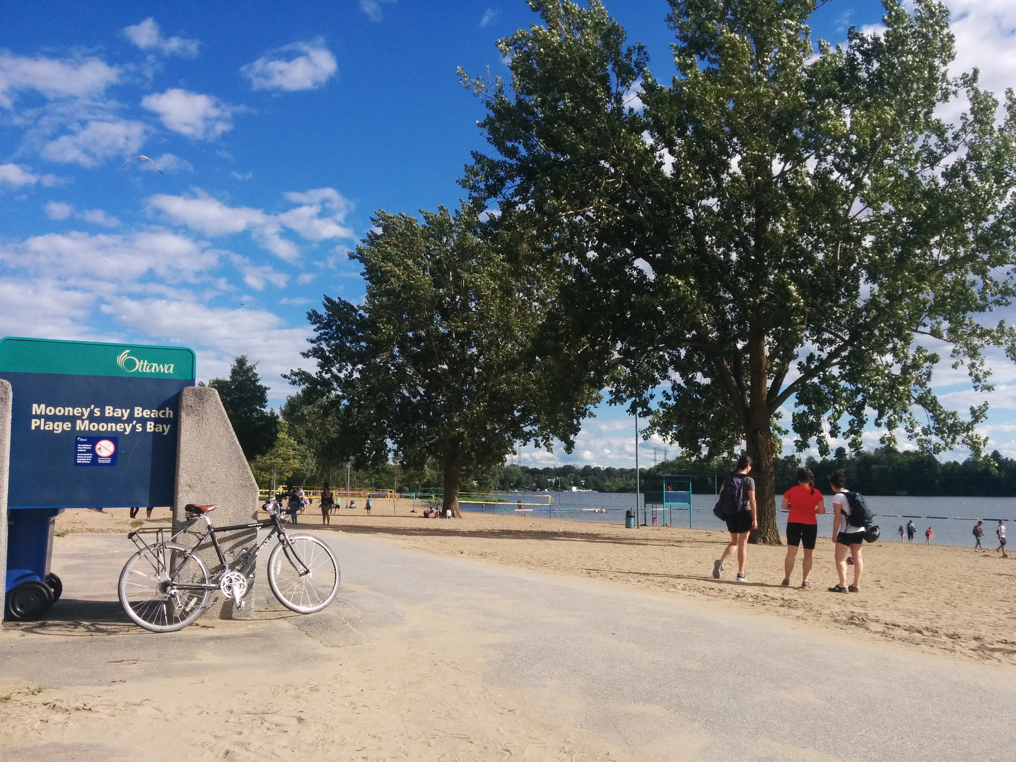 The beach at Mooney's Bay Park on 19 July 2016.